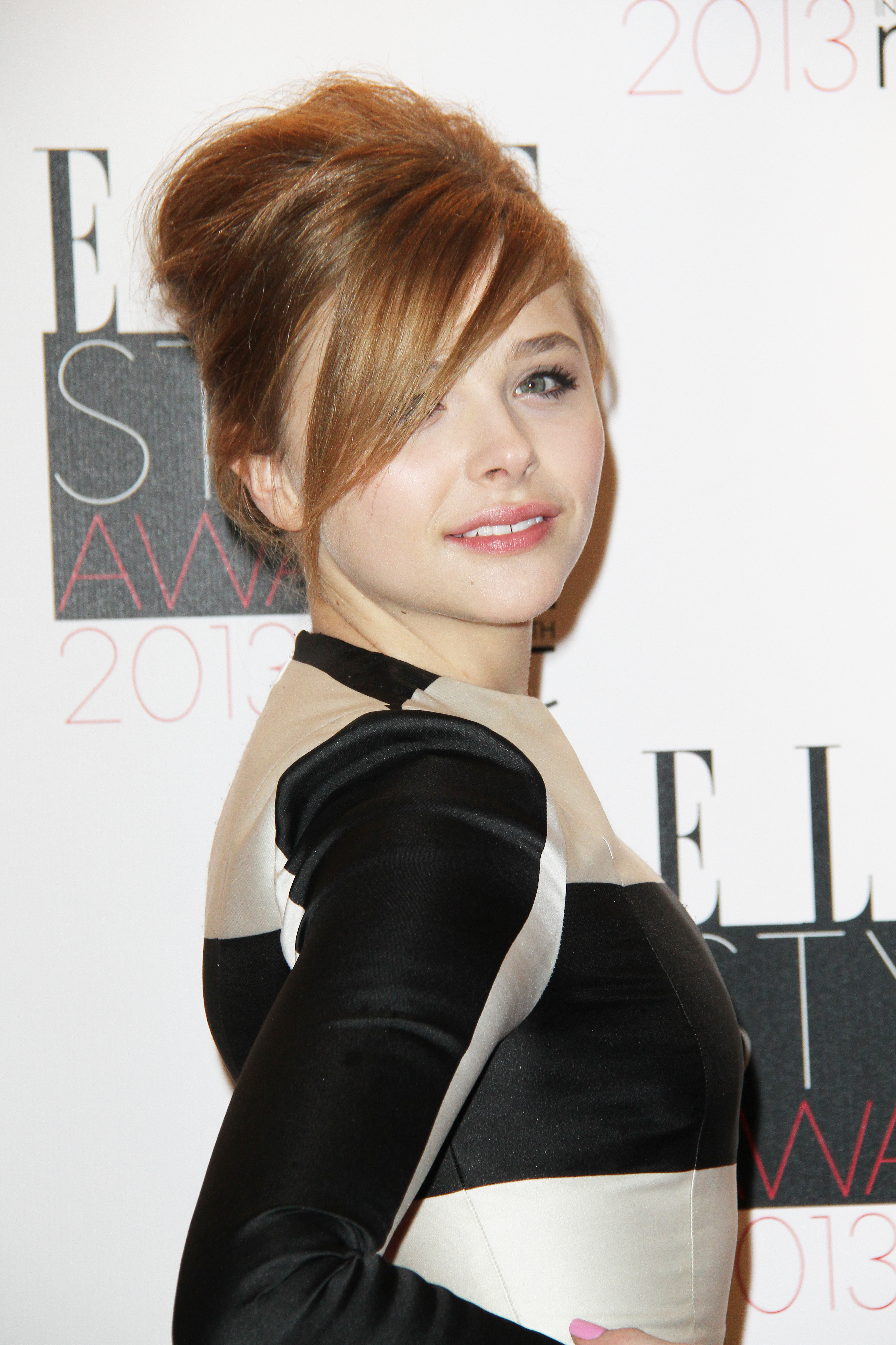 Chloë Grace Moretz at the ELLE Style Awards in London, UK. Taken on 11 February 2013.